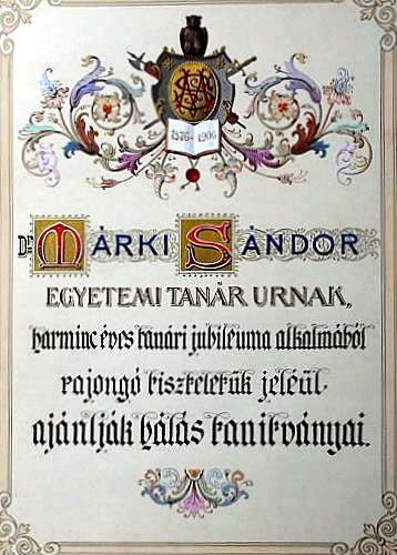 Sándor Márki's medal